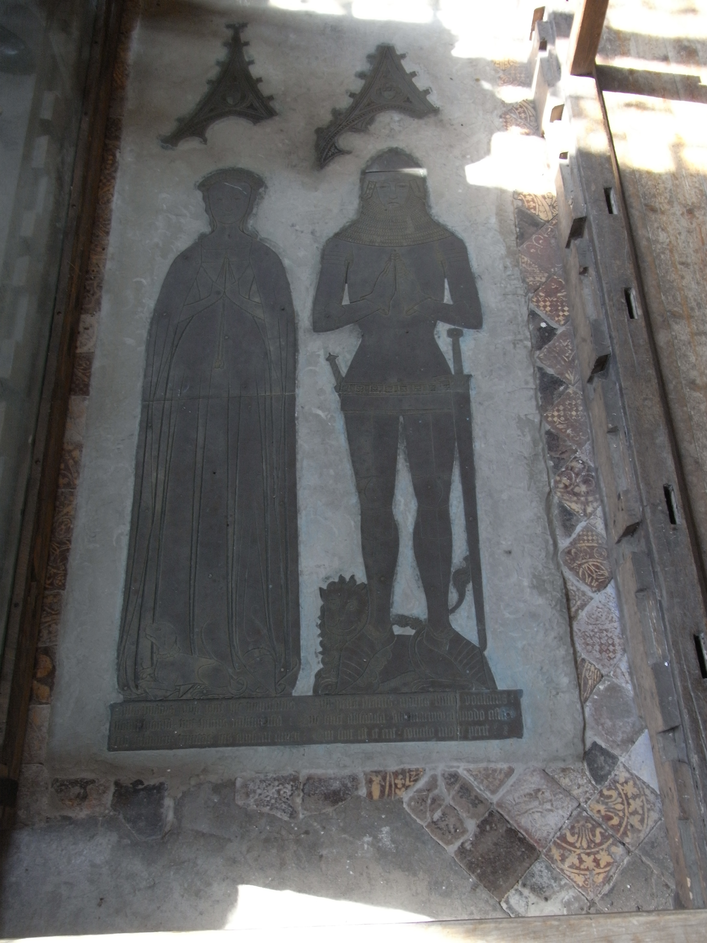 The monumental brass of Sir Maurice Russell (2 February 1356 – 27 June 1416; right) and his wife Isabel Childrey at St. Peter's Church, Dyrham, South Gloucestershire, England, UK.